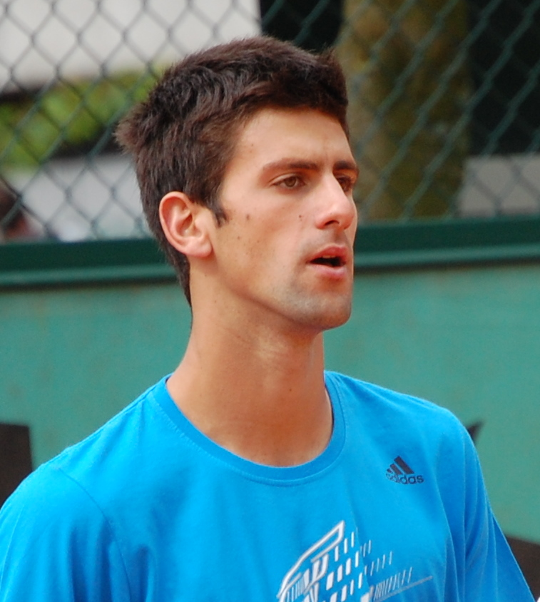 Novak Đoković training during 2009 Roland Garros